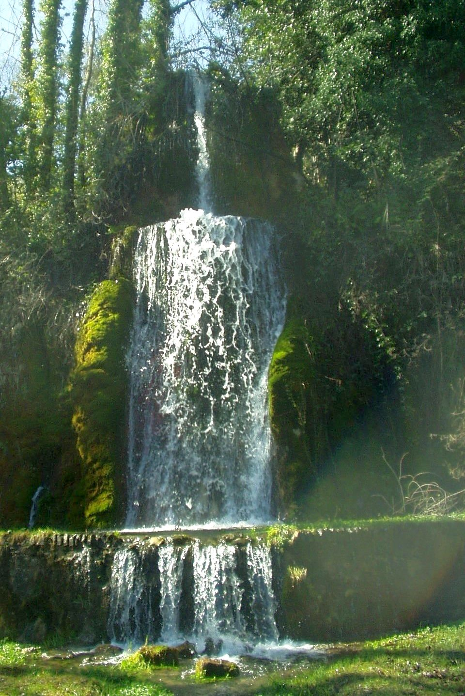 Bandusia, waterfall in Licenza, Rome (Italy).